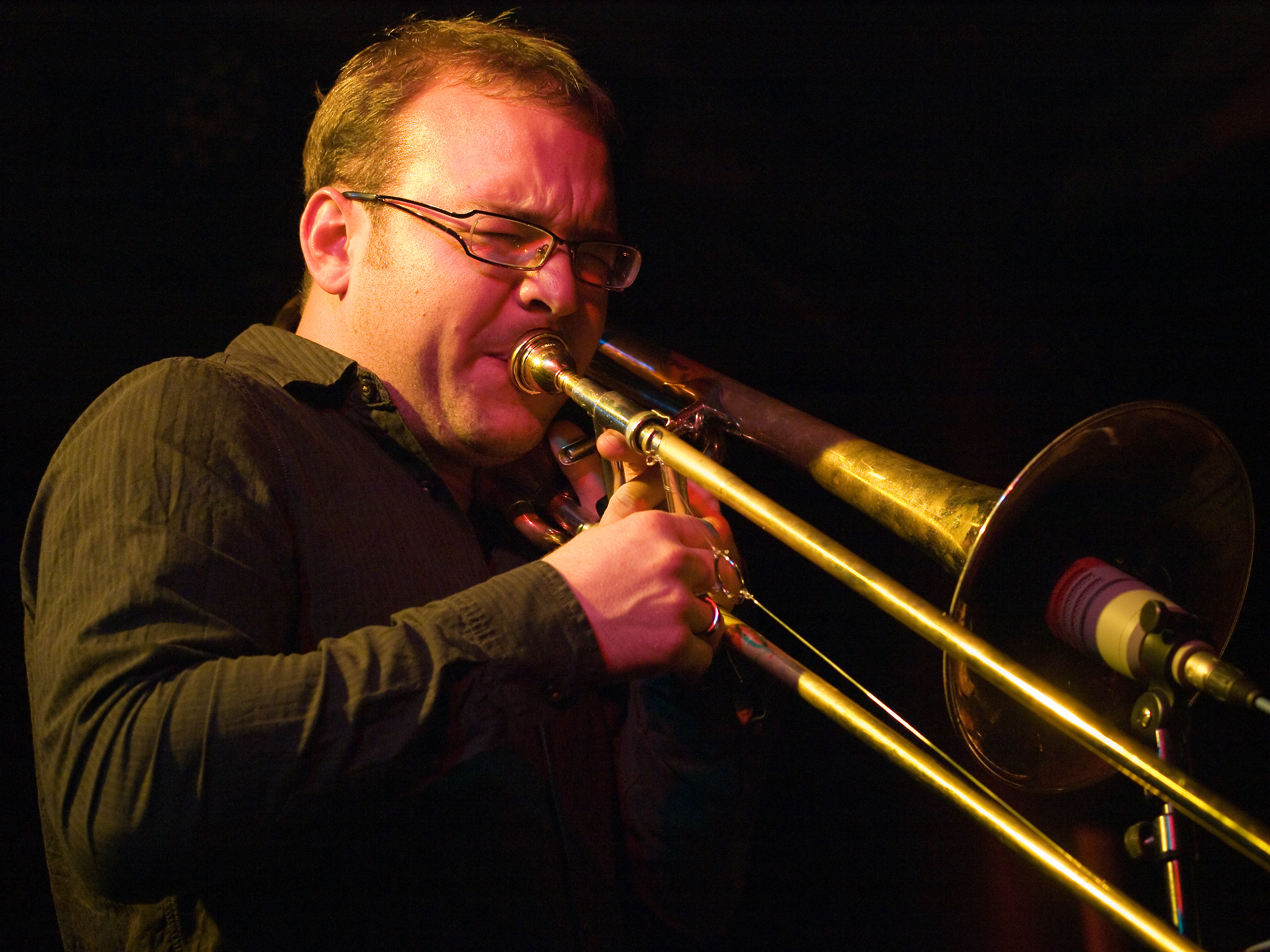 Samuel Blaser, jazz trombonist, picture taken in Jazz club "Unterfahrt" in Munich/Germany